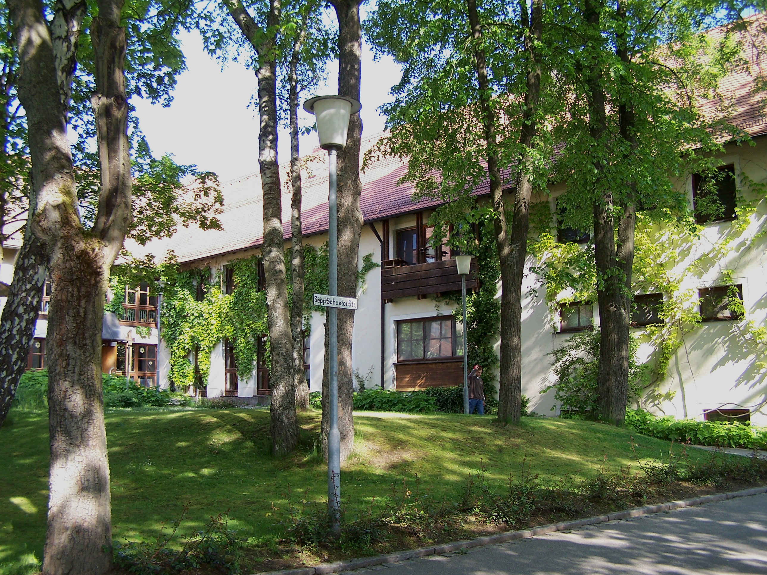 Hostel Tannenlohe of the Deutsches Jugendherbergswerk in Falkenberg (Upper Palatinate) in May 2007